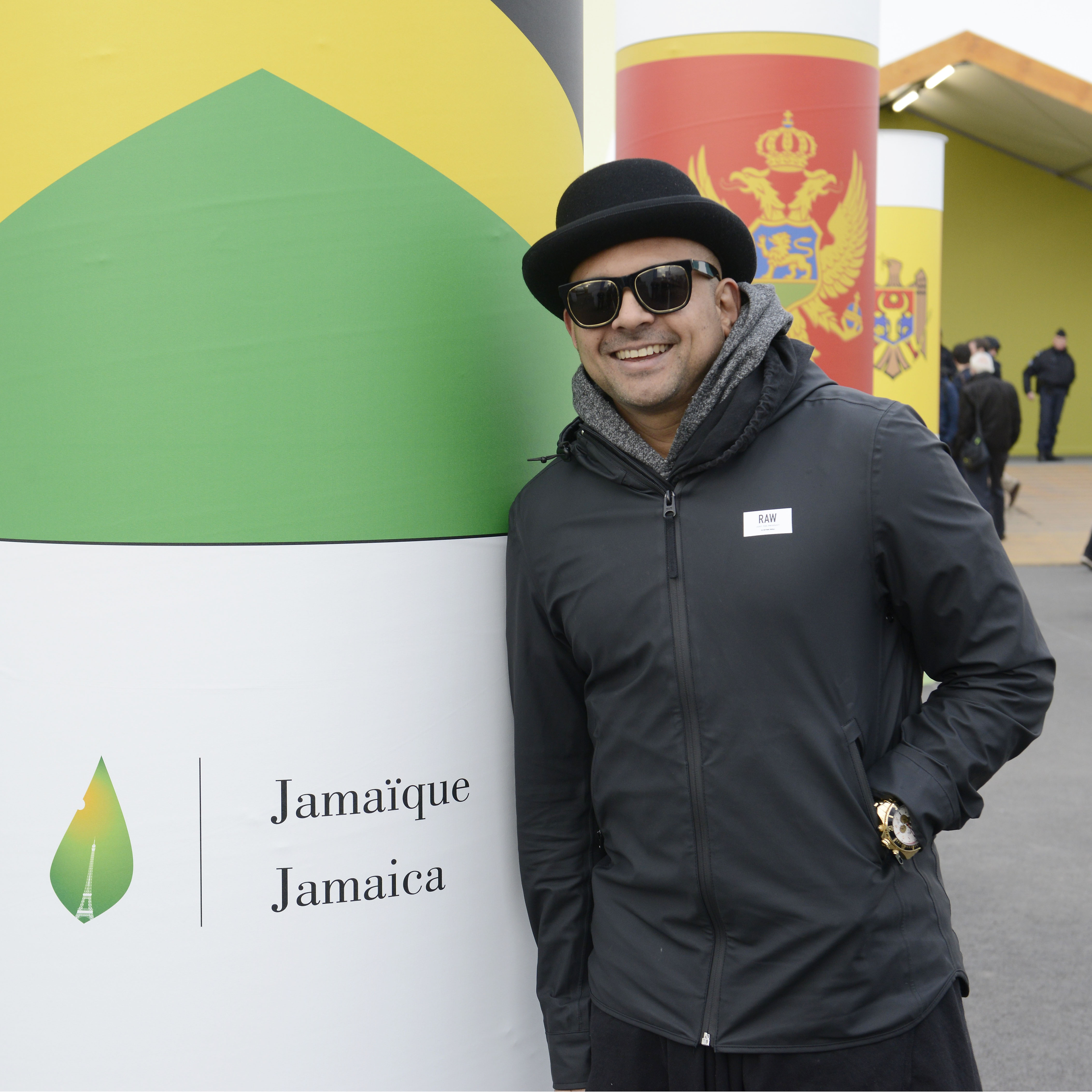 Sean Paul at the 2015 United Nations Climate Change Conference